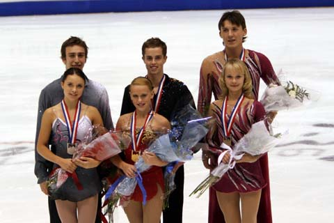 The pairs podium at the 2007 Junior Grand Prix event in Lake Placid, New York, USA. From left: Carolyn MacCuish / Andrew Evans (2nd), Olivia Jones / Donald Jackson (1st), Anastaisa Khodkova / Pavel Sliusarenko (3rd).